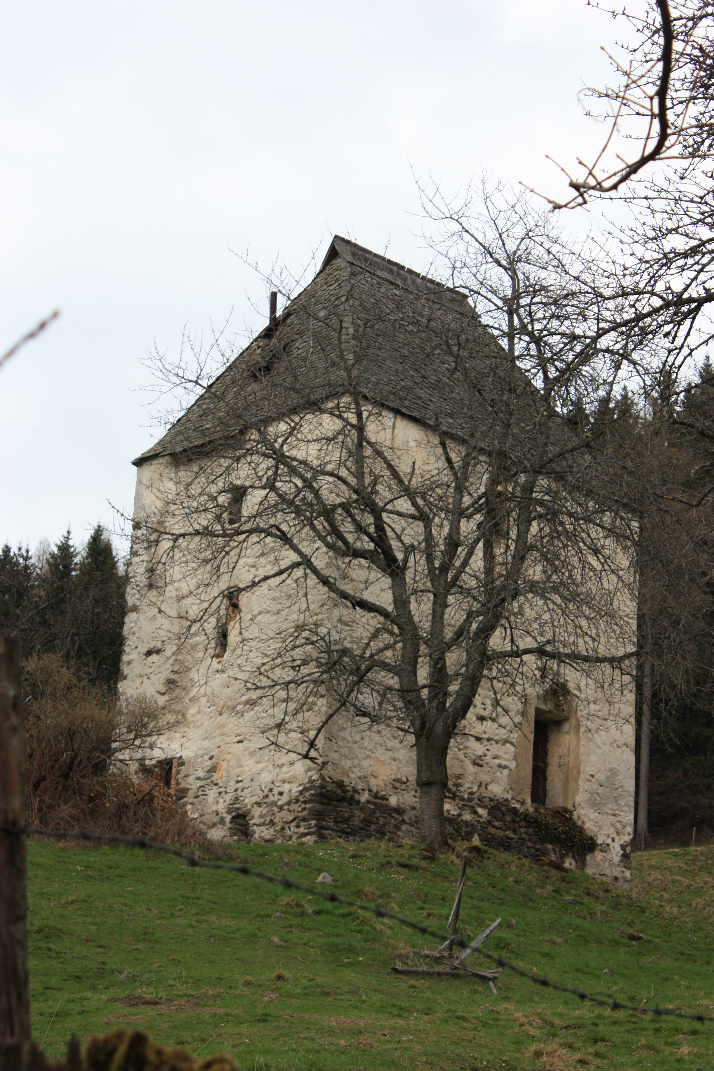 Former church Locality: Reidenau Community: Liebenfels